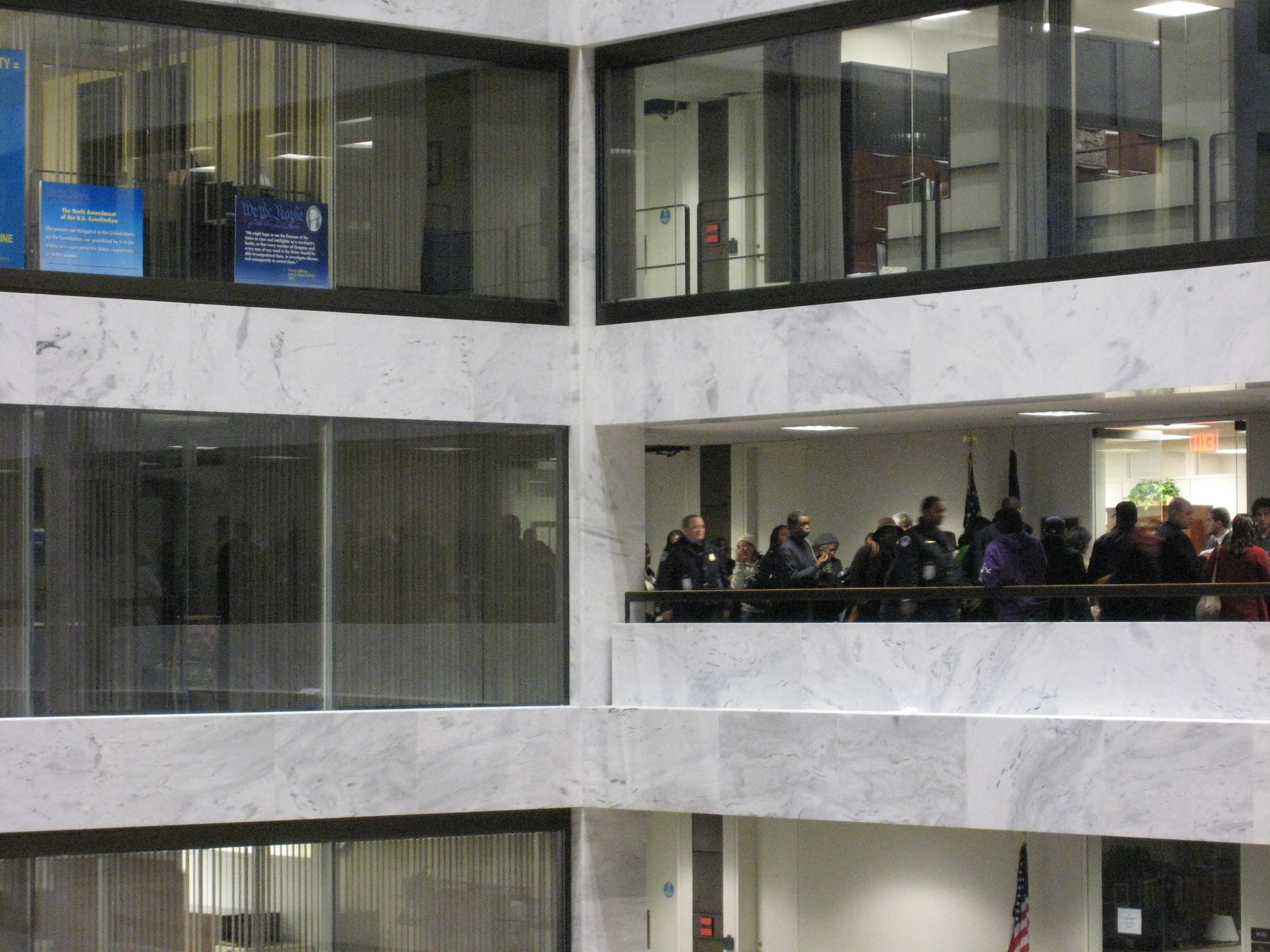 The line outside of Diane Feinstein's office for the unclaimed inauguration tickets.